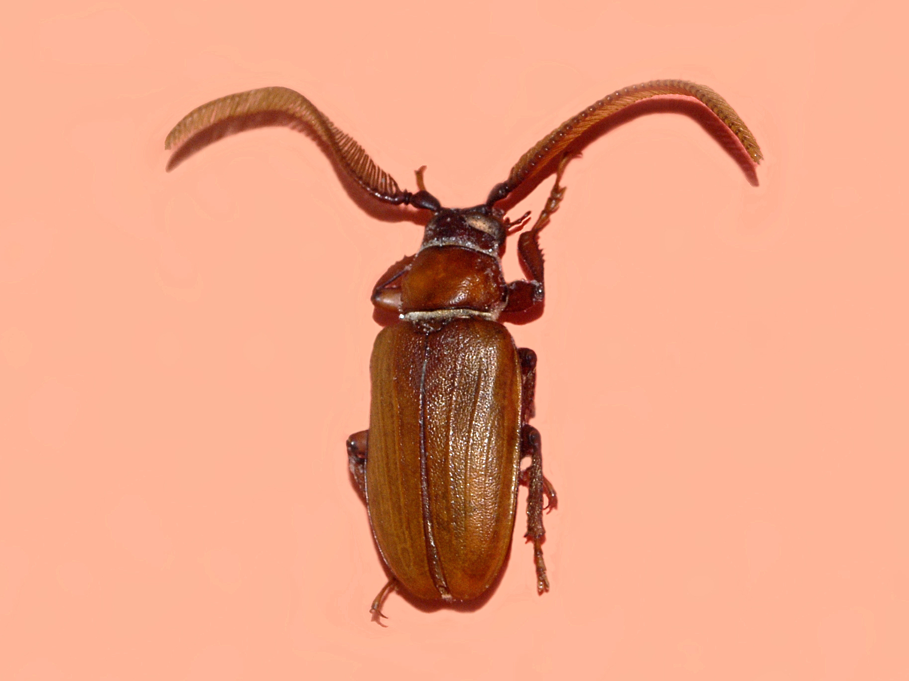 Museum specimen of Cantharocnemis antennatus. On display at the Museo Civico di Storia Naturale di Milano